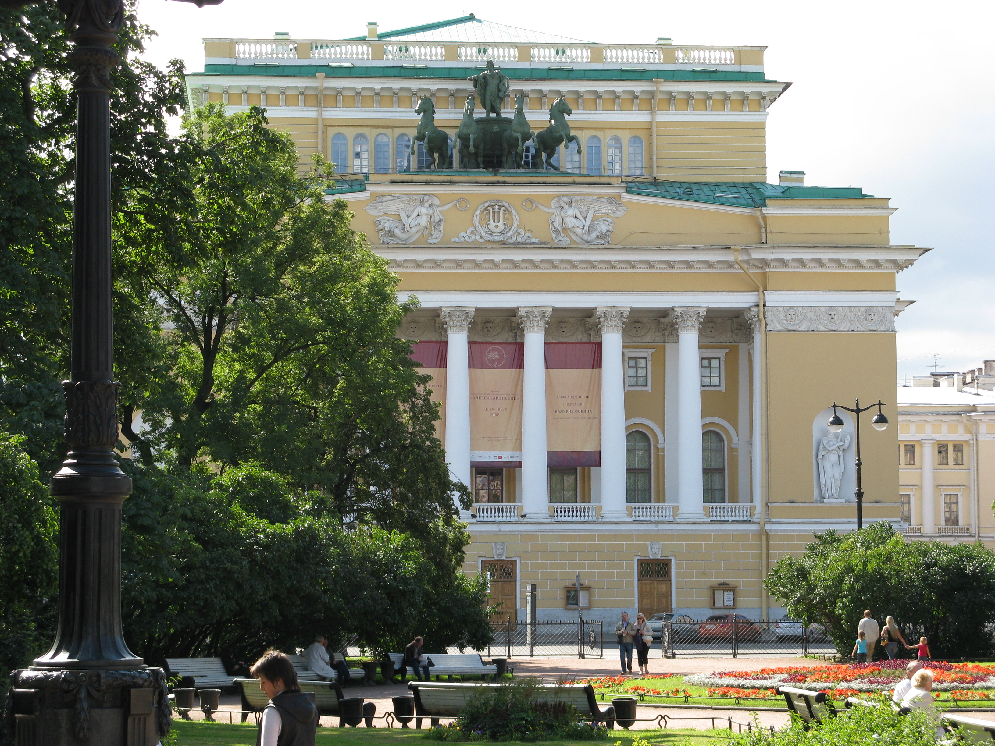 Alexandrinsky Theatre - Front